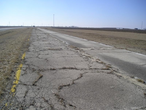 An abandoned early Route 66 alignment in southern Illinois in 2006. (Photo courtesy of Shawn Mariani of )